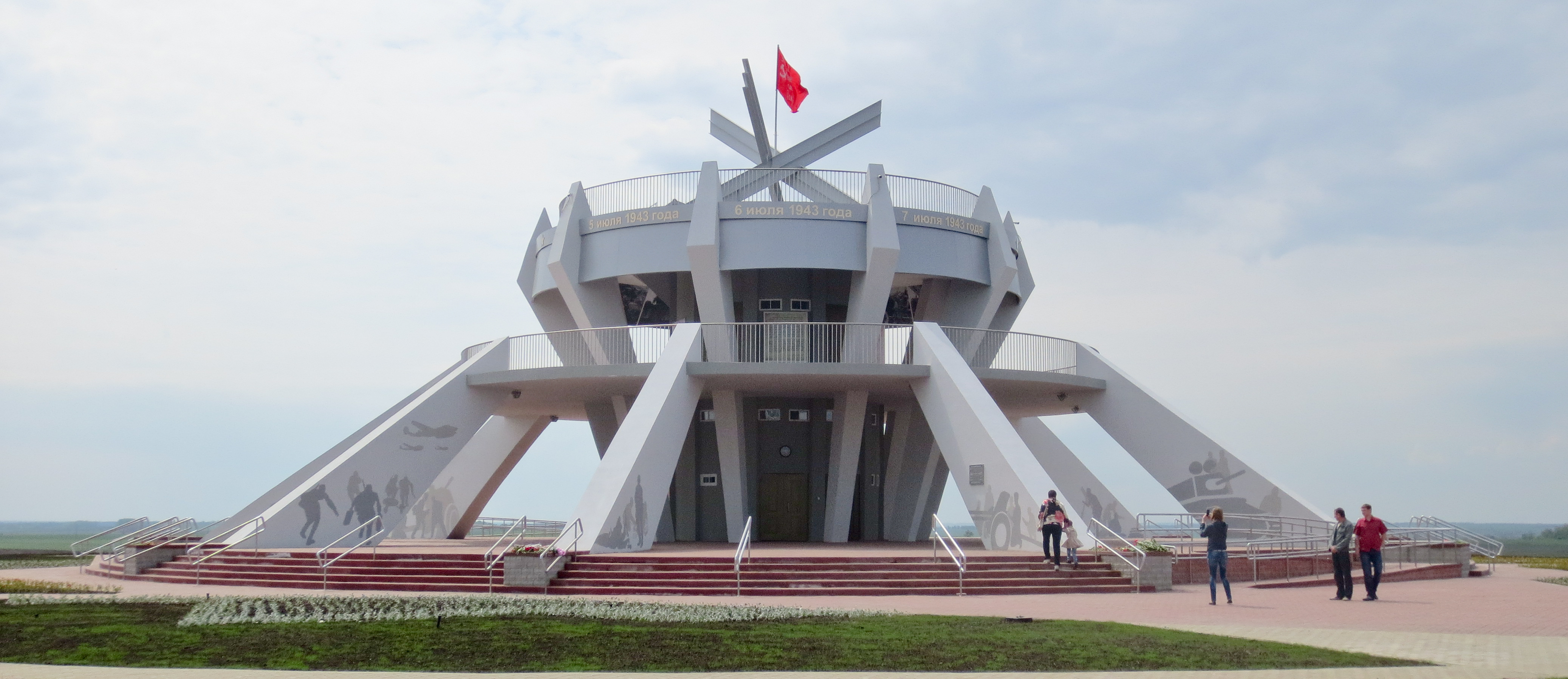 Memorial "Teplovsky's hills" in honor of the memory of the fallen on the northern fase the Battle of Kursk